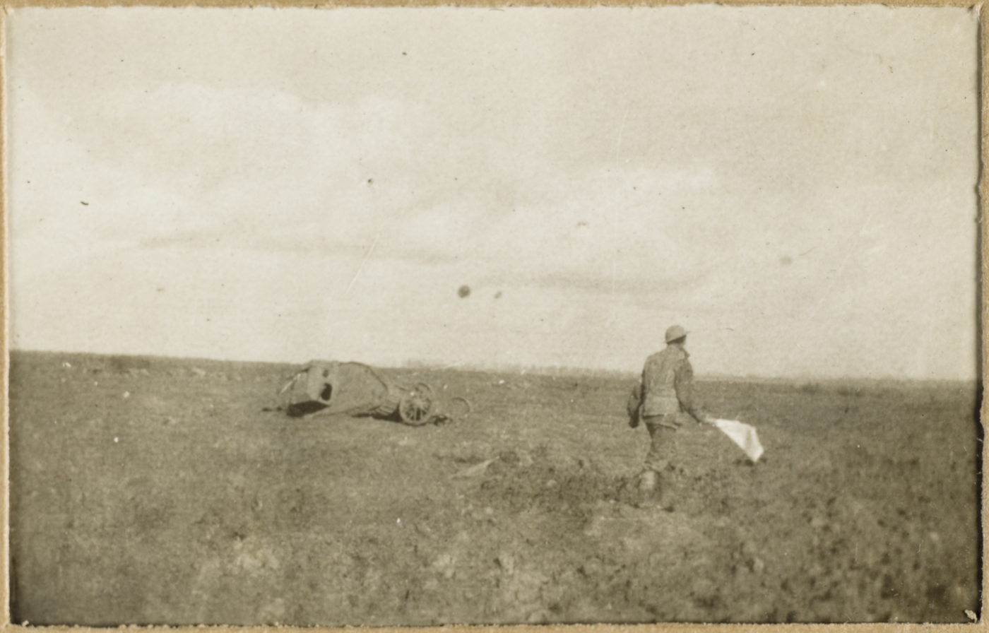 27. Looking for wounded under protection of a white flag 1916